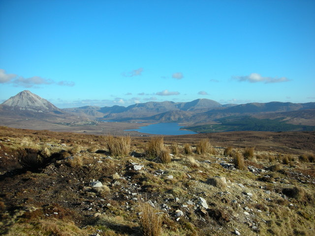 Donegal: "Stones, Peat And Rushes At Gweedore" Photo taken from road to Cronalaght mountain wind farm at Gweedore. Lough Nacung Upper and Dunlewy lough in the distance. On the horizon, snow tipped Slieve Snaght, the Poisoned Glen with Errigal mountain to the left. Map Ref. B85650 23200 Elevation 150 metres (492 feet)